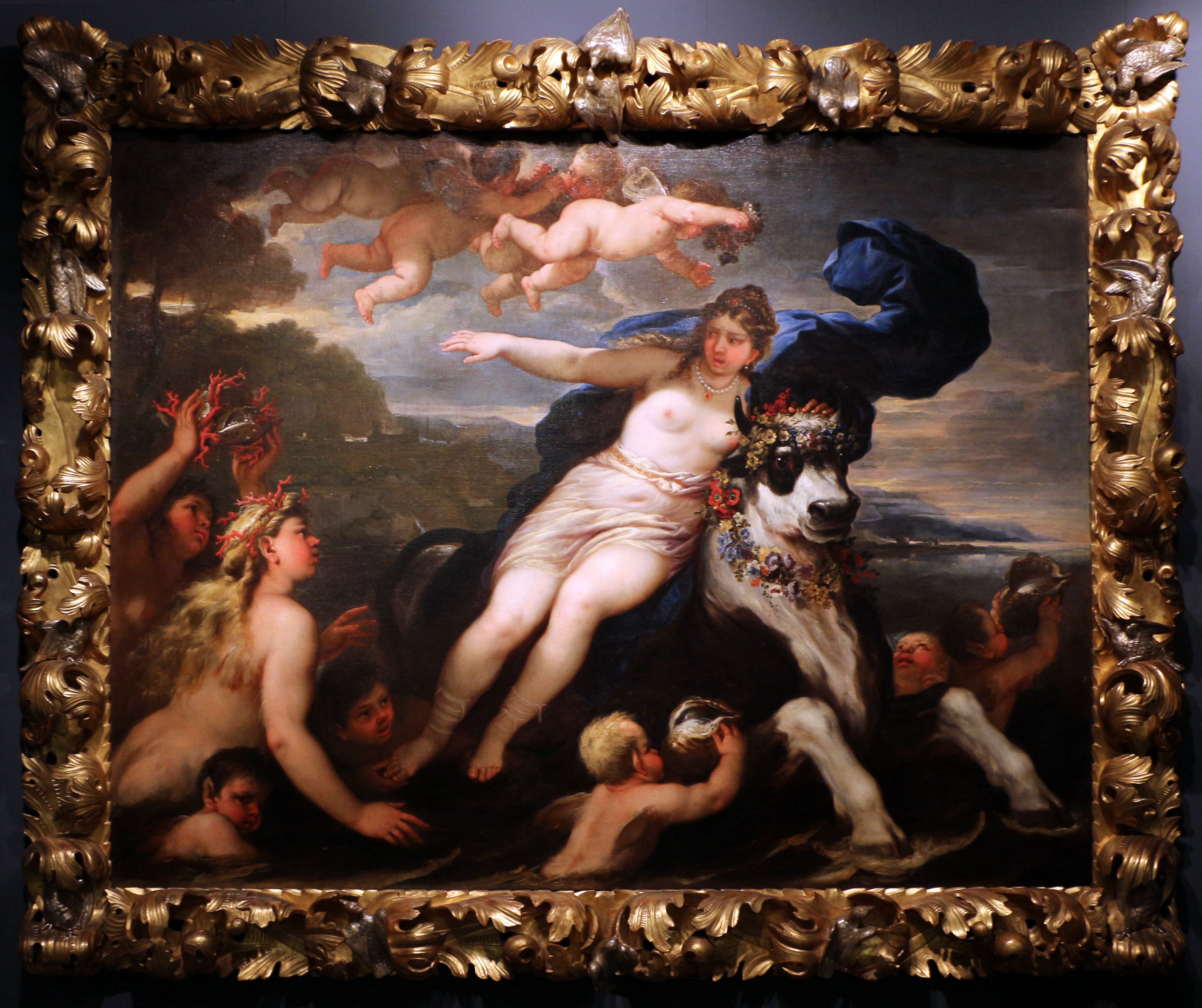 Courtesy of Robilant+Voena